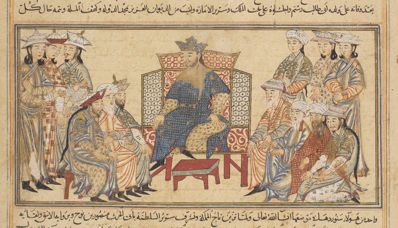 Painting of Mansur I, an Samanid Emir.